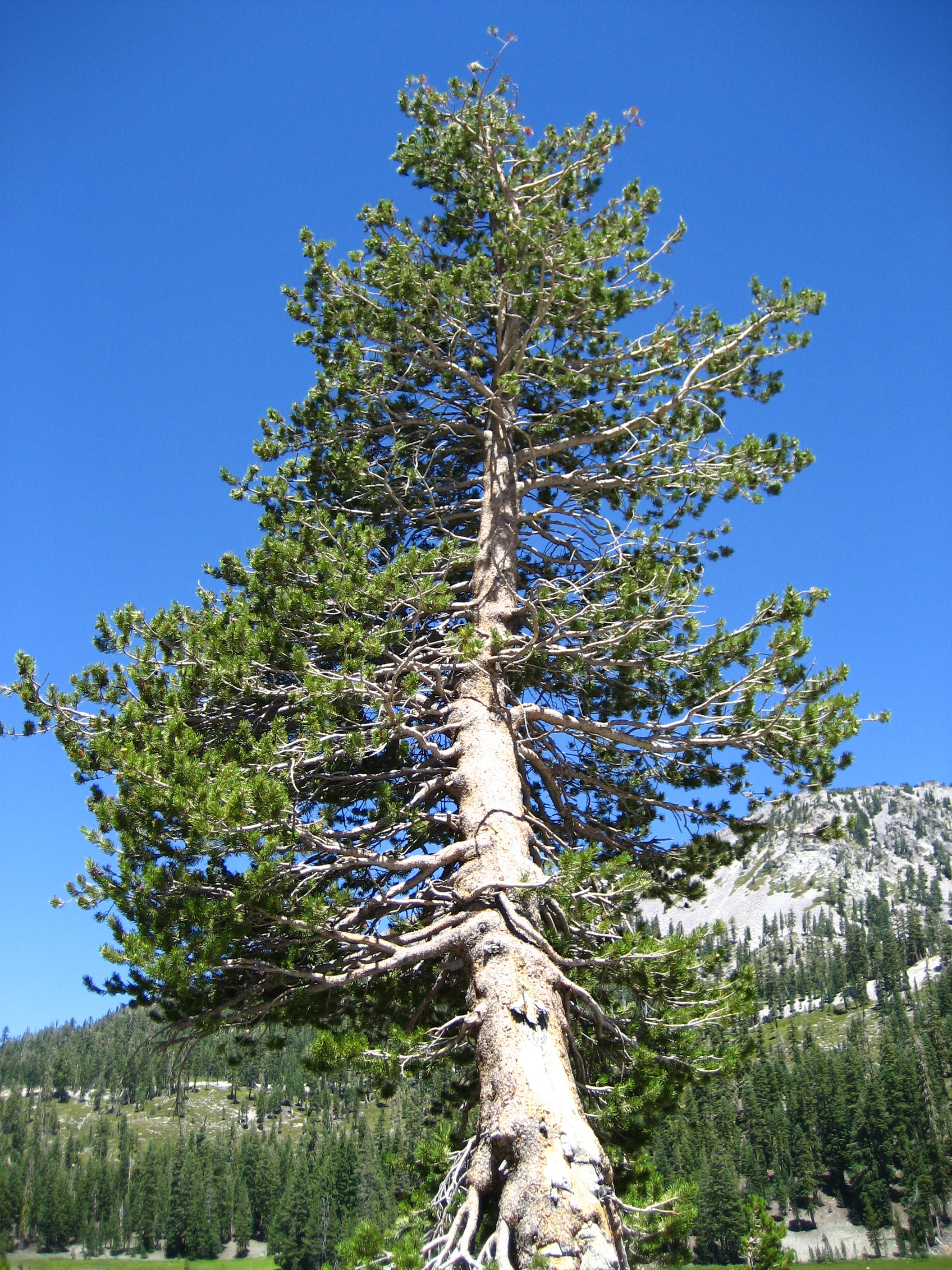 Weathered Pinus contorta subsp. murrayana. Lassen Volcanic National Park, Tehama County, California.